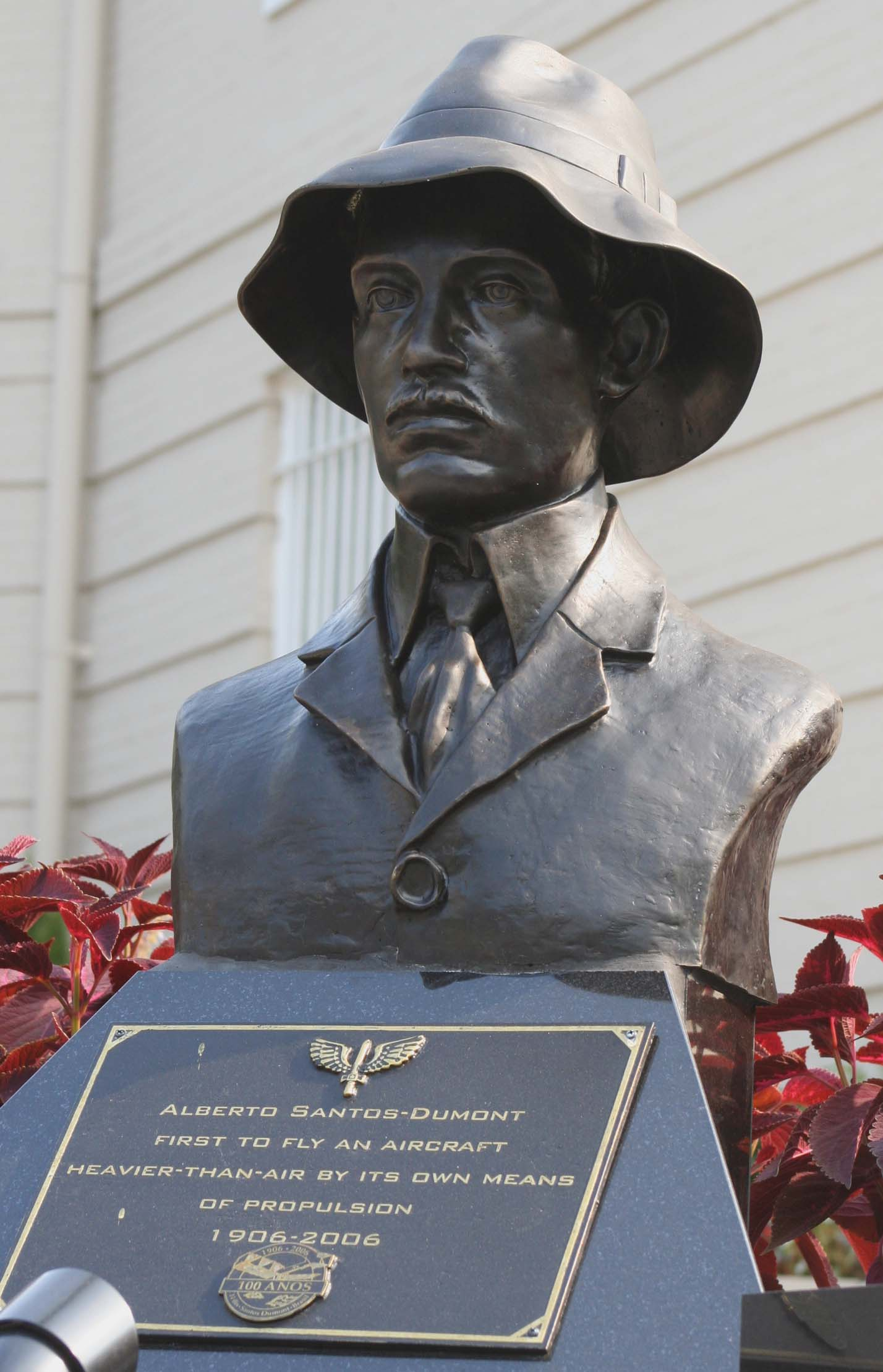 Bust of Alberto Santos-Dumont, near the Brazilian Embassy, Washington, D.C., USA.